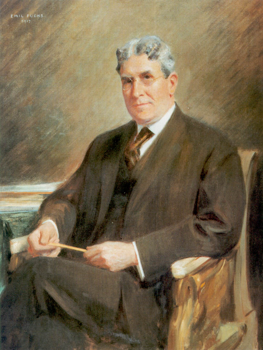 Lindley M. Garrison, 46th United States Secretary of War. Oil on canvas, 41¼" x 34½".